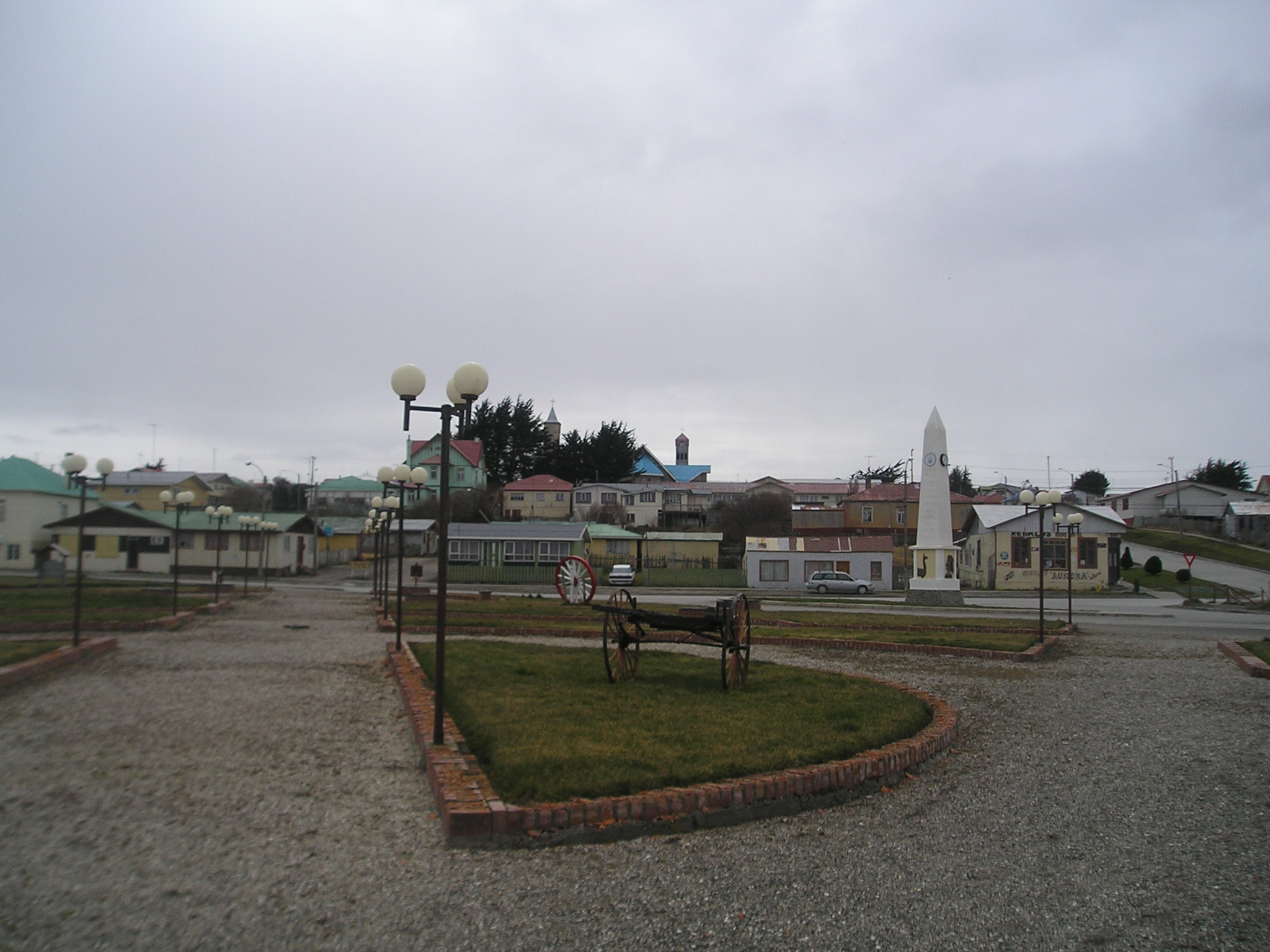 Porvenir, Chile - Parque Yugoslavo (Yugoslavia Park)